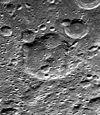 Clementine image from Map-A-Planet.